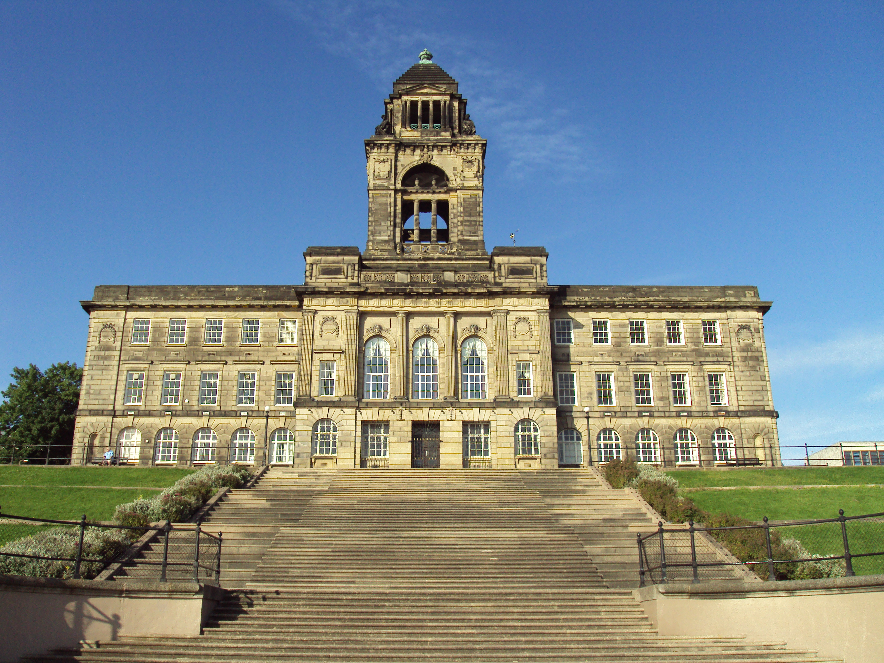 Wallasey Town Hall, Wirral, England as seen from the promenade.